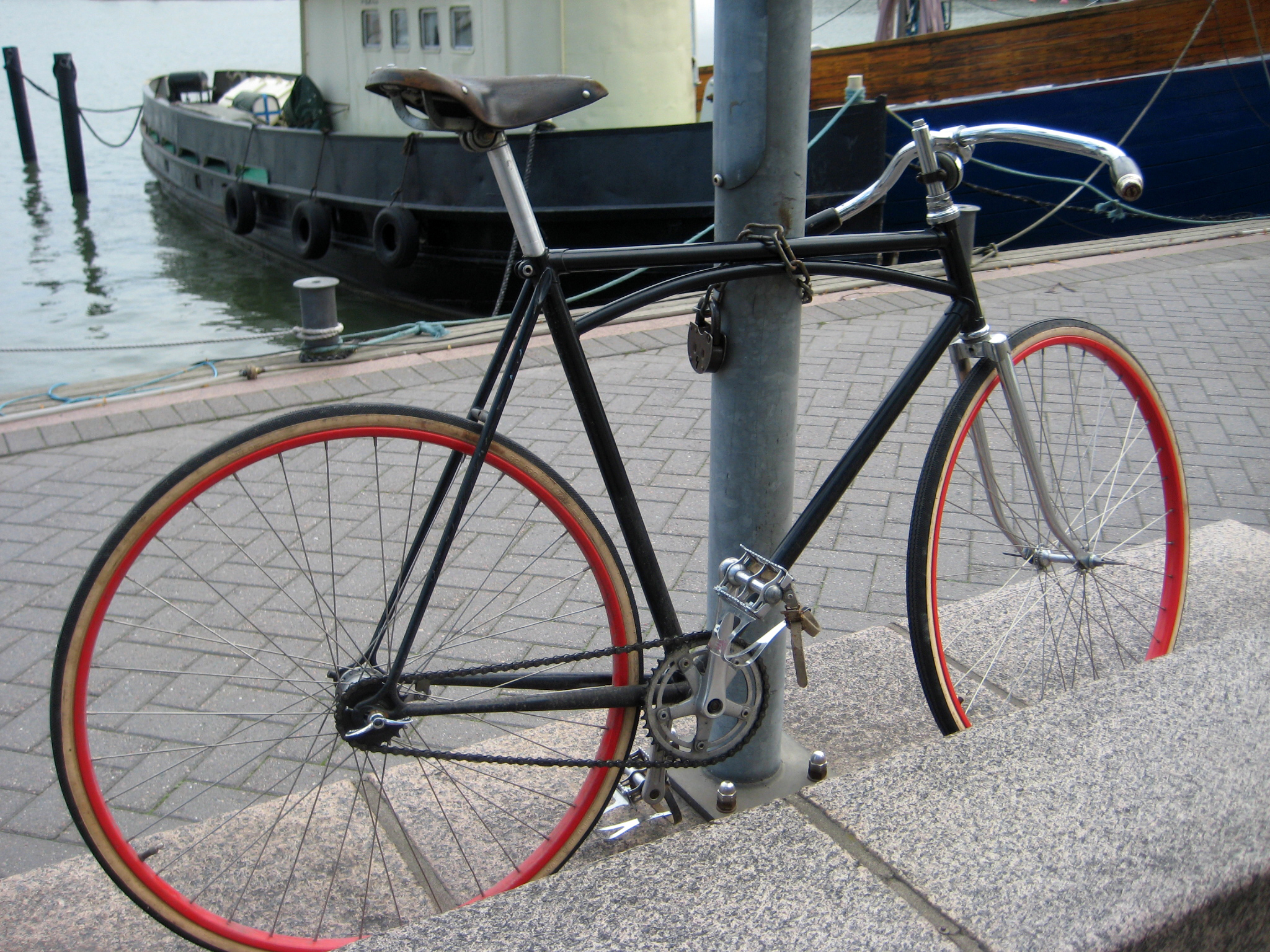 Looks like vintage 622 mm converted to 630 mm fixed gear. Location; Helsinki